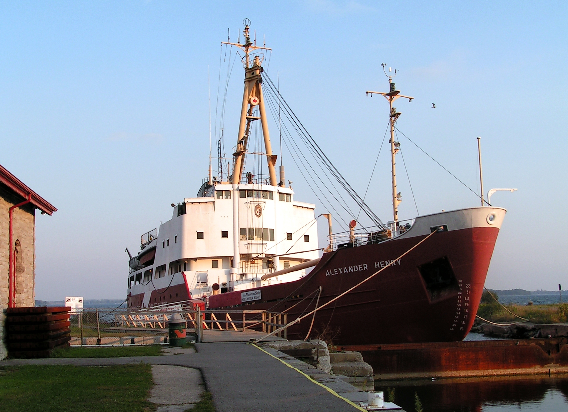 The Canadian Coast Guard icebreaker Alexander Henry at the Marine Museum of the Great Lakes in Kingston, Ontario, Canada. The 3.000 ton, 210 foot ship was in service from 1958 to 1984. It is named after Alexander Henry, an 18th Century explorer and fur trader.